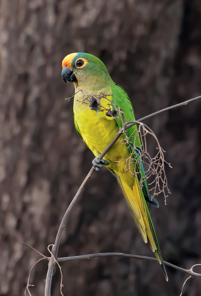 A Peach-fronted Parakeet in Dourados, Mato Grosso do Sul, Brazil.